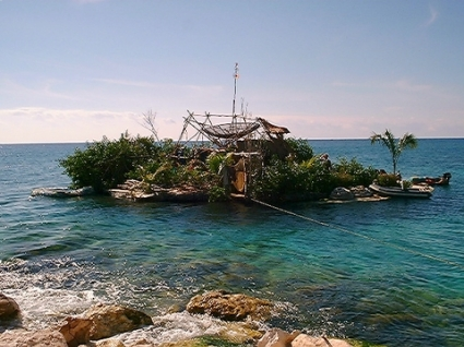 Spiral Island in early March 2000. This island is built upon a raft of plastic bottles.